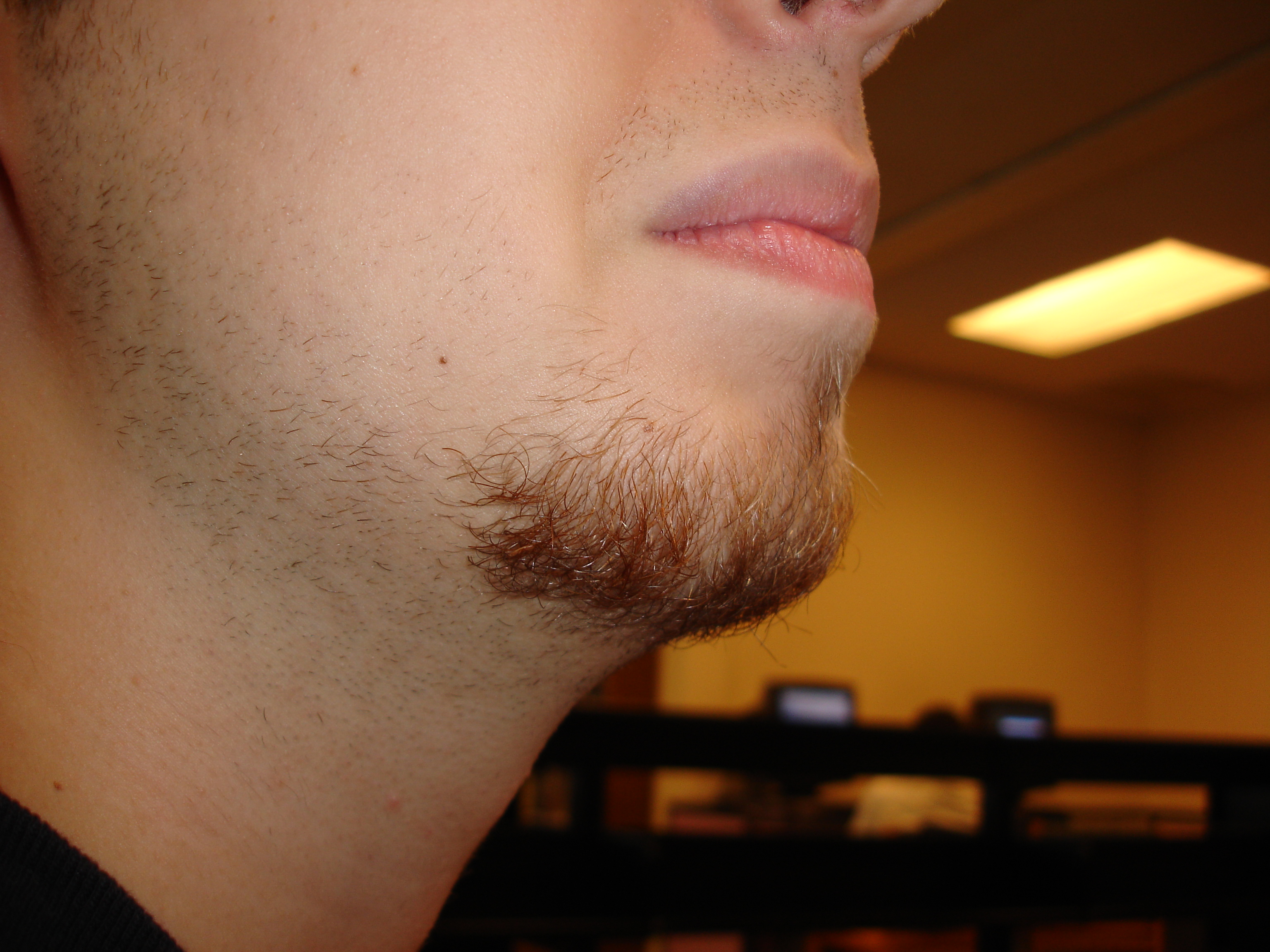 A goatee.